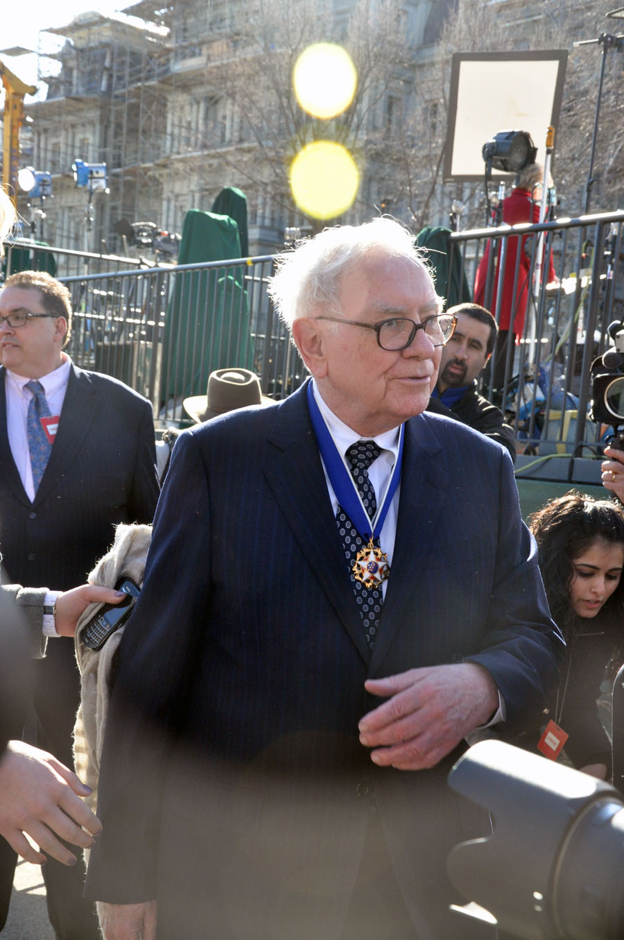 Billionaire investor Warren Buffett answers questions outside the White House after receiving the Medal of Freedom for his philanthropic work.